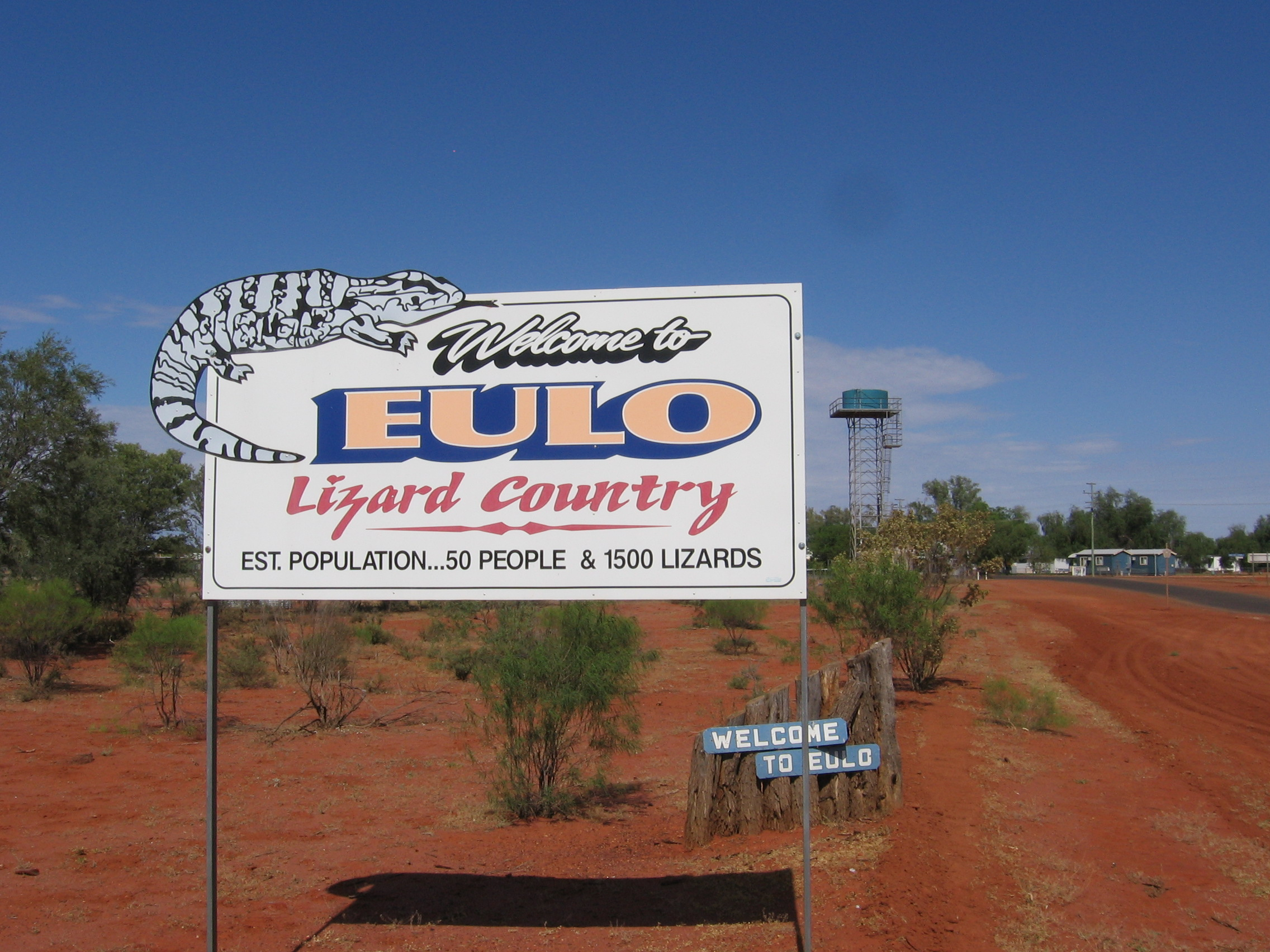 Entrance sign to Eulo, Australia (approaching from the east on Bulloo Developmental Road, Adventure Way.)